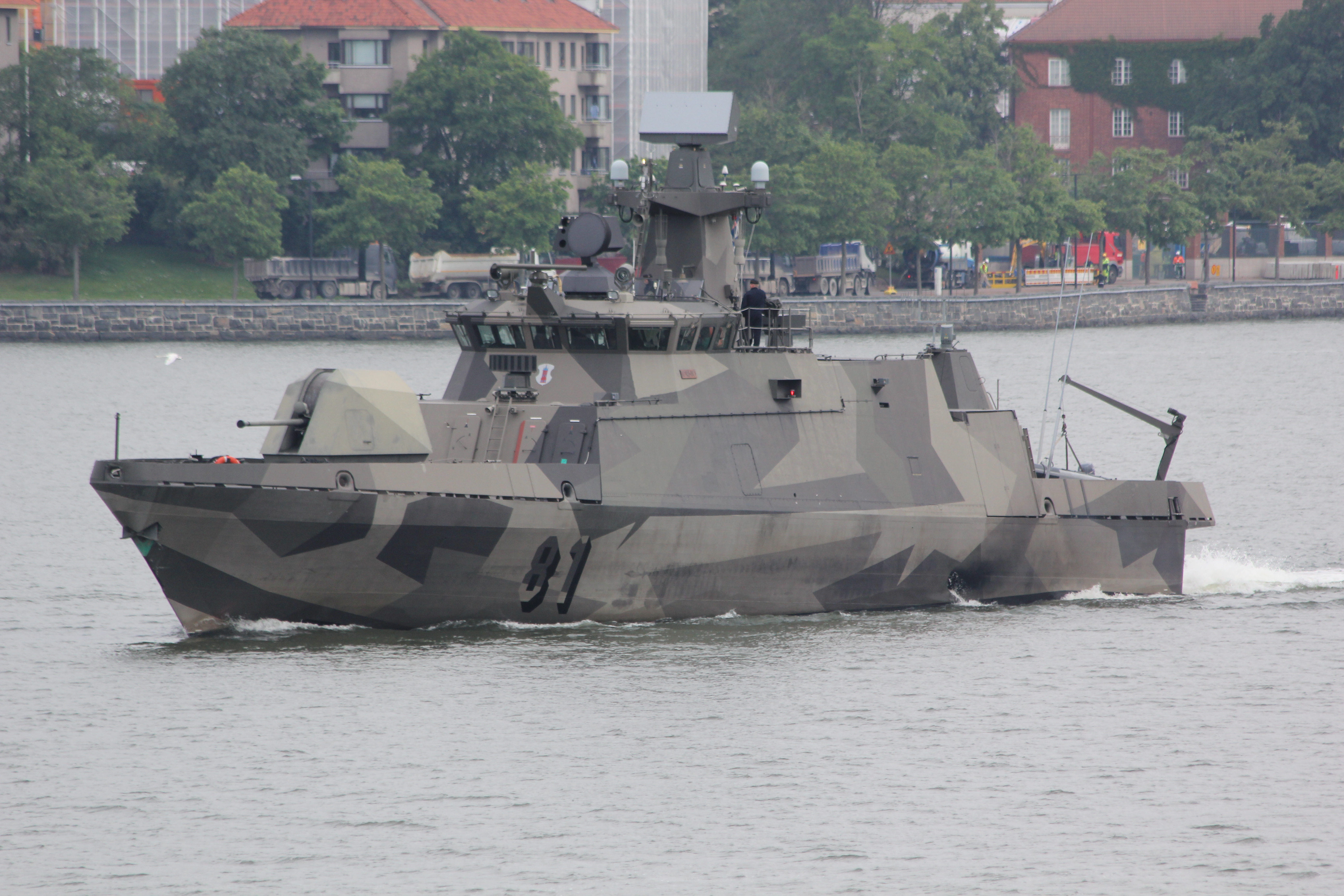 Finnish missile boat Tornio approaching Särkänsalmi strait on the morning after the Finnish navy 2012 anniversary.